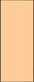 Color of the funnels on the Russia-America Line ships.